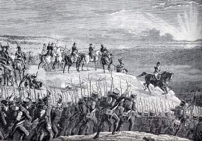 Napoleon and marshall Nicolas Soult at the battle of Austerlitz